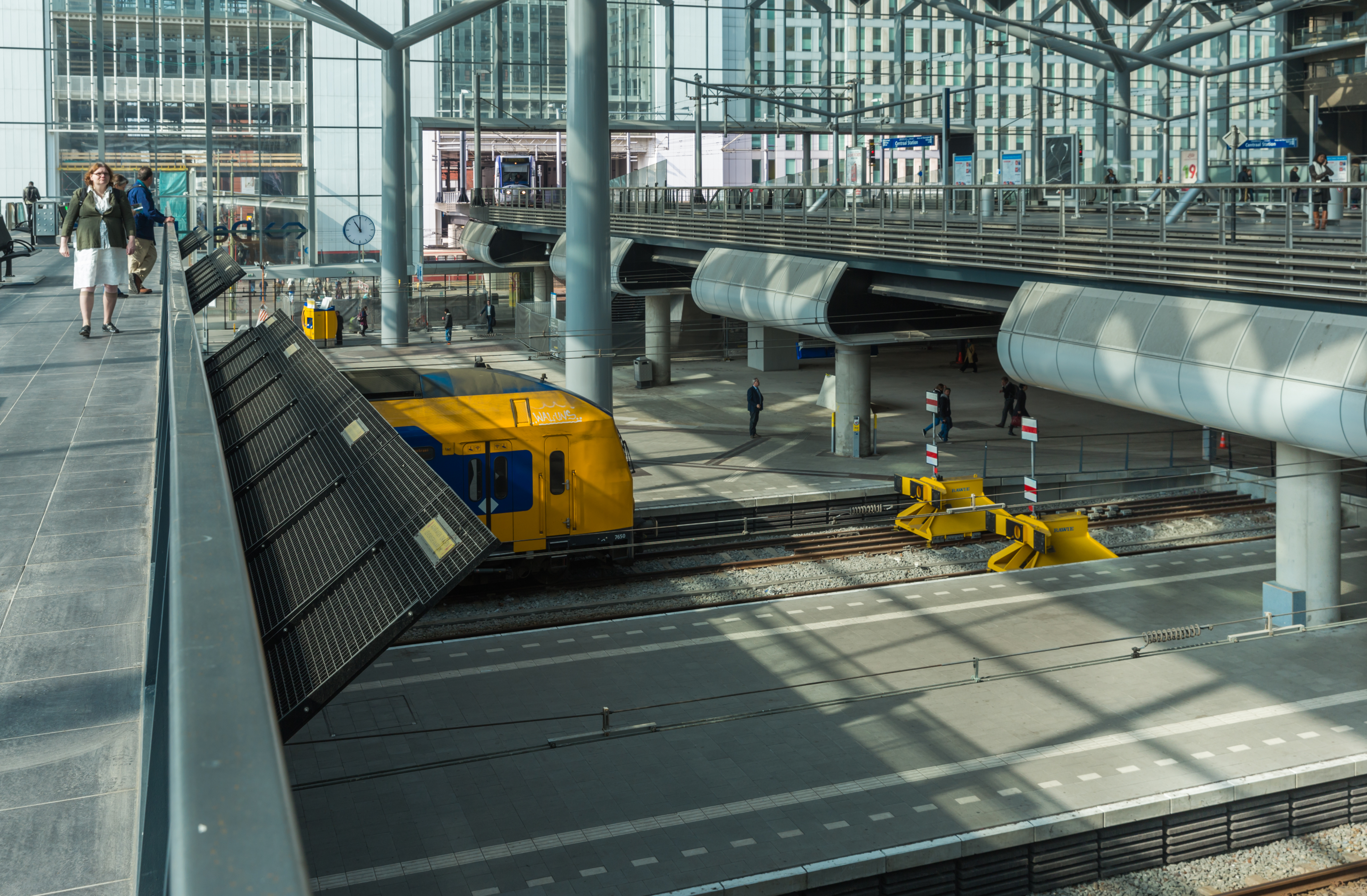 View into the interior of Central Station The Hague from the tram platform with escalator, in direction of the new tower on Babylon and the trams leaving the area of the city-center